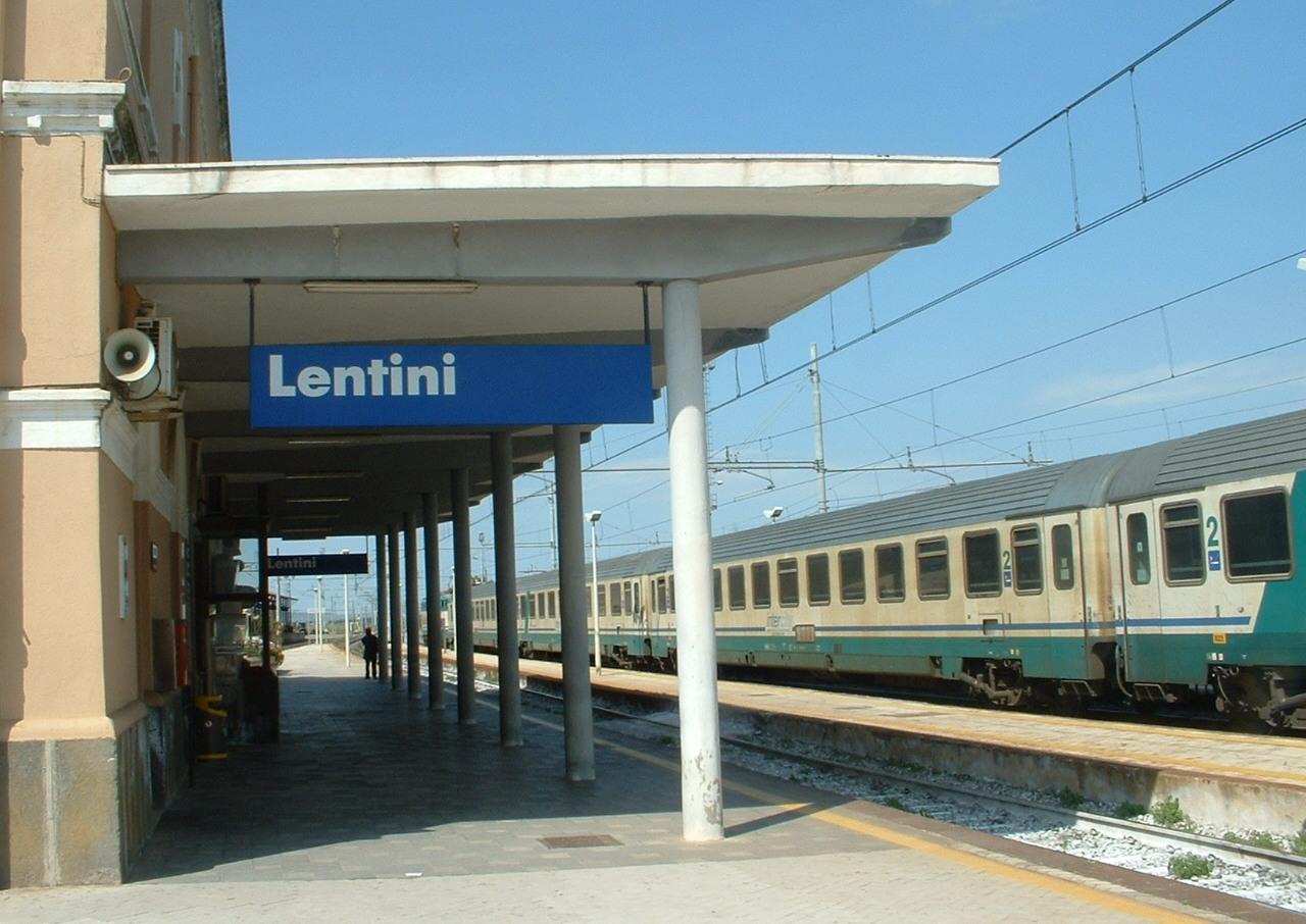 Internal view of Lentini Railway Station (1871)